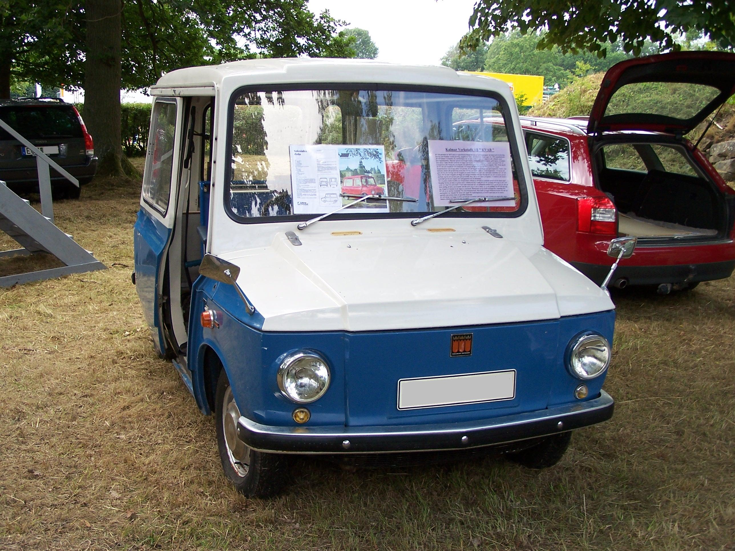 Kalmar Verkstads AB (KVAB) Tjorven, equipped for handicapped people. Picture taken at Calmar Classic Motor Show 2008.